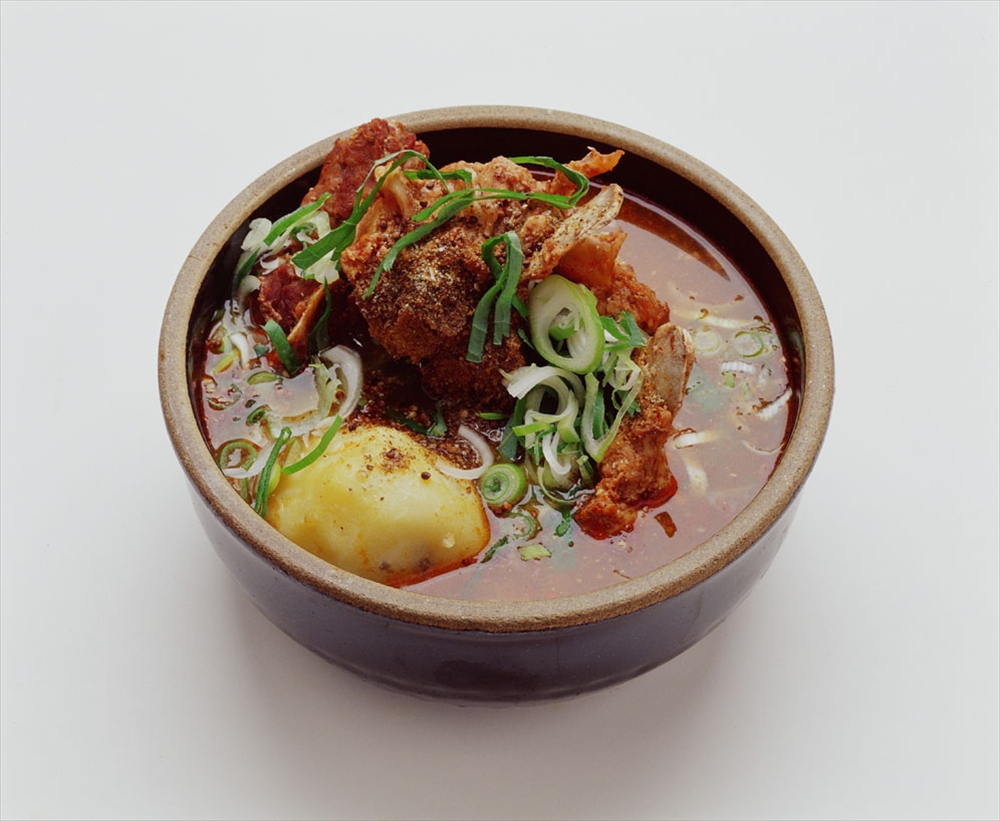 Pork backbone soup, made with potatoes, green cabbage leaves, and aromatic wild sesame seeds.